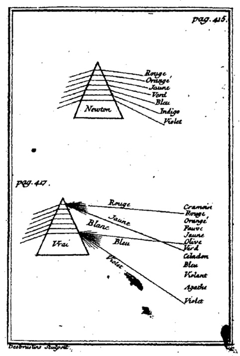 Louis-Bertrand Castel's 1740 color concept compared to Newton's